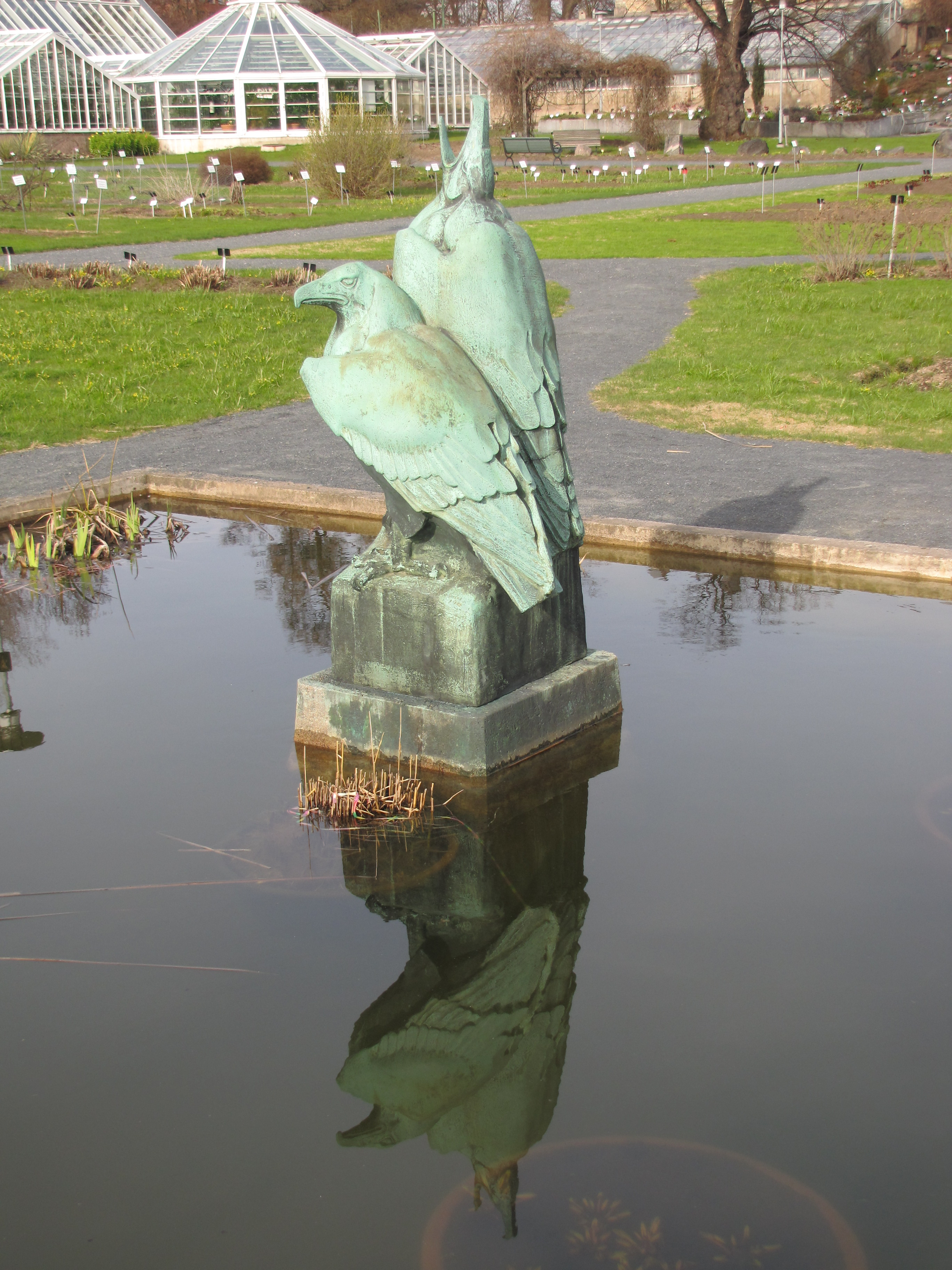 Kotkia (Eagles) statue in Botanical Garden in Kaisaniemi in Helsinki. Bronze statue completed in 1913 by Bertel Nilsson.